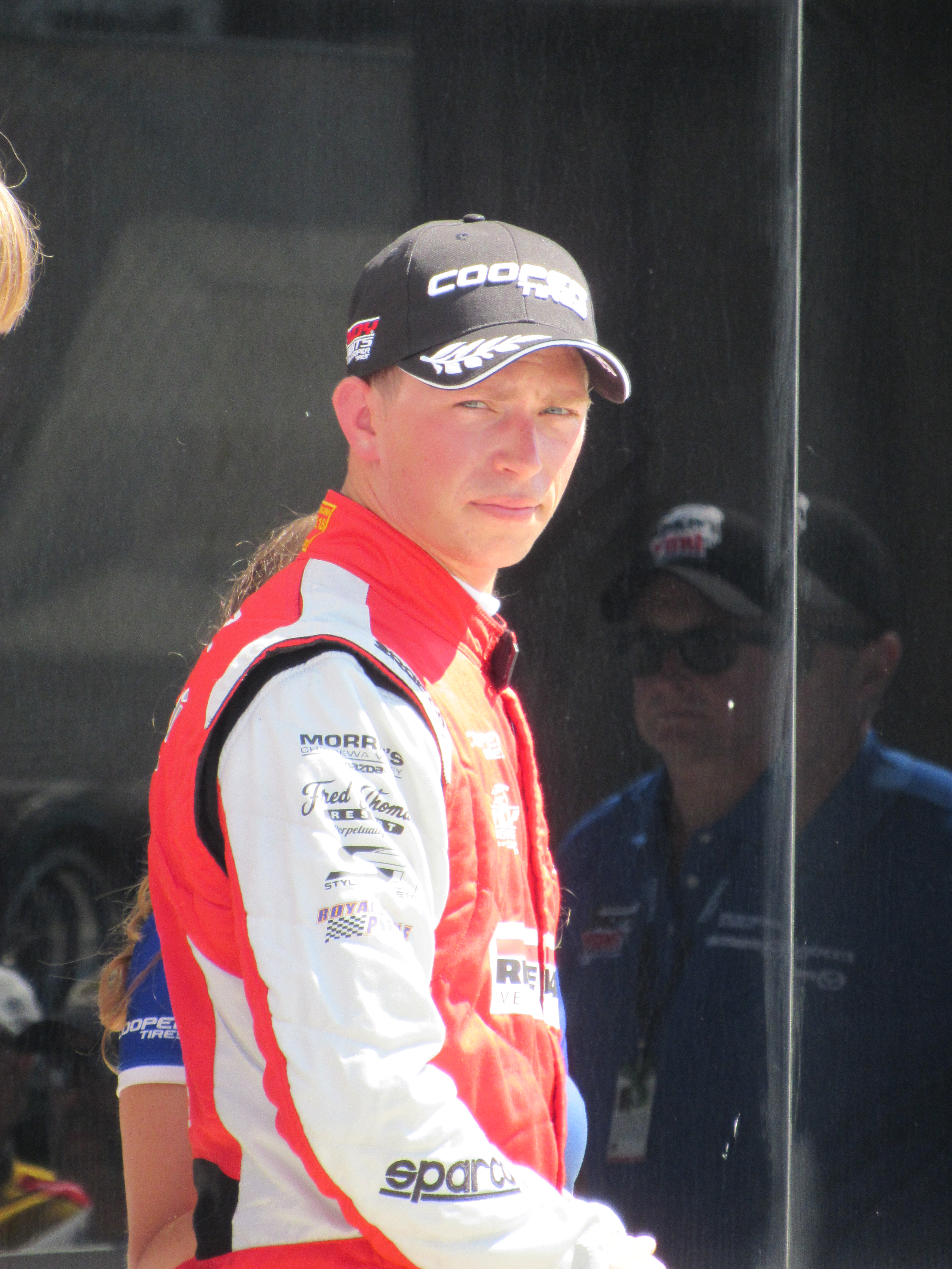 Aaron Telitz in the Victory Lane area at Road America in 2018 beofre the podium ceremony for the Indy Lights race